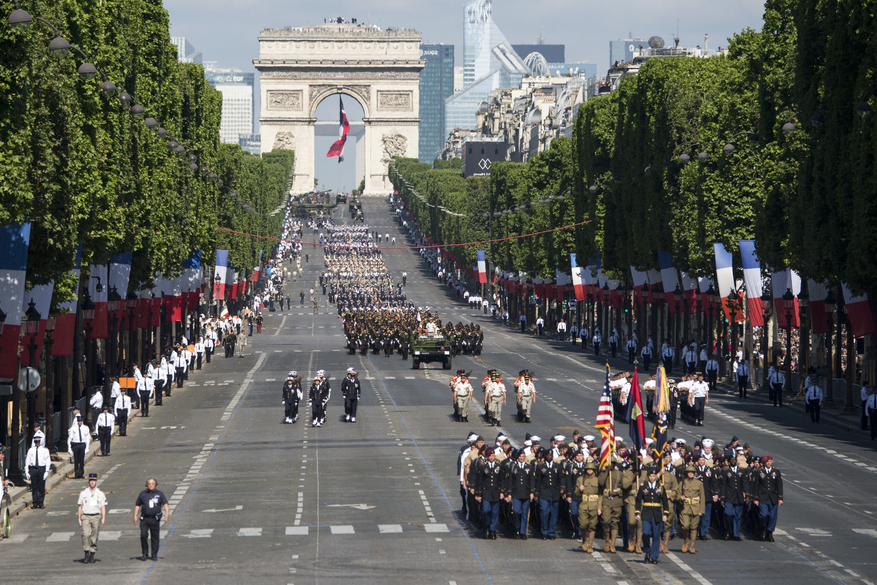 American soldiers, sailors, airmen and Marines lead the annual Bastille Day military parade down the Champs-Elysees in Paris, July 14, 2017. DoD photo by Navy Petty Officer 2nd Class Dominique Pineiro